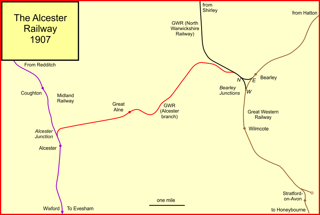 System map of the former Alcester Railway, now GWR, in Warwickshire, England, in 1907